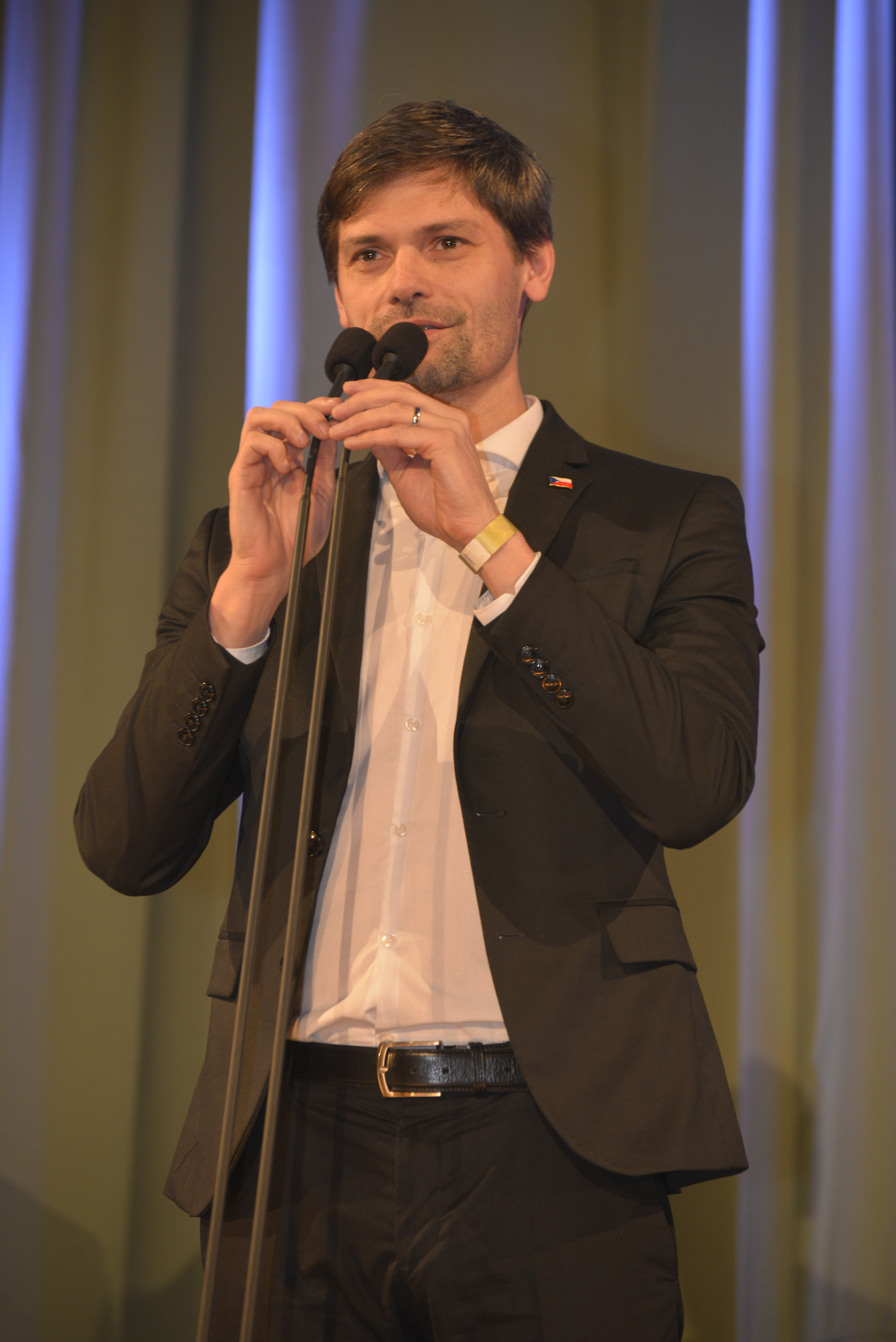 Final part of presidential campaign of Jiří Drahoš in Lucerna Cinema